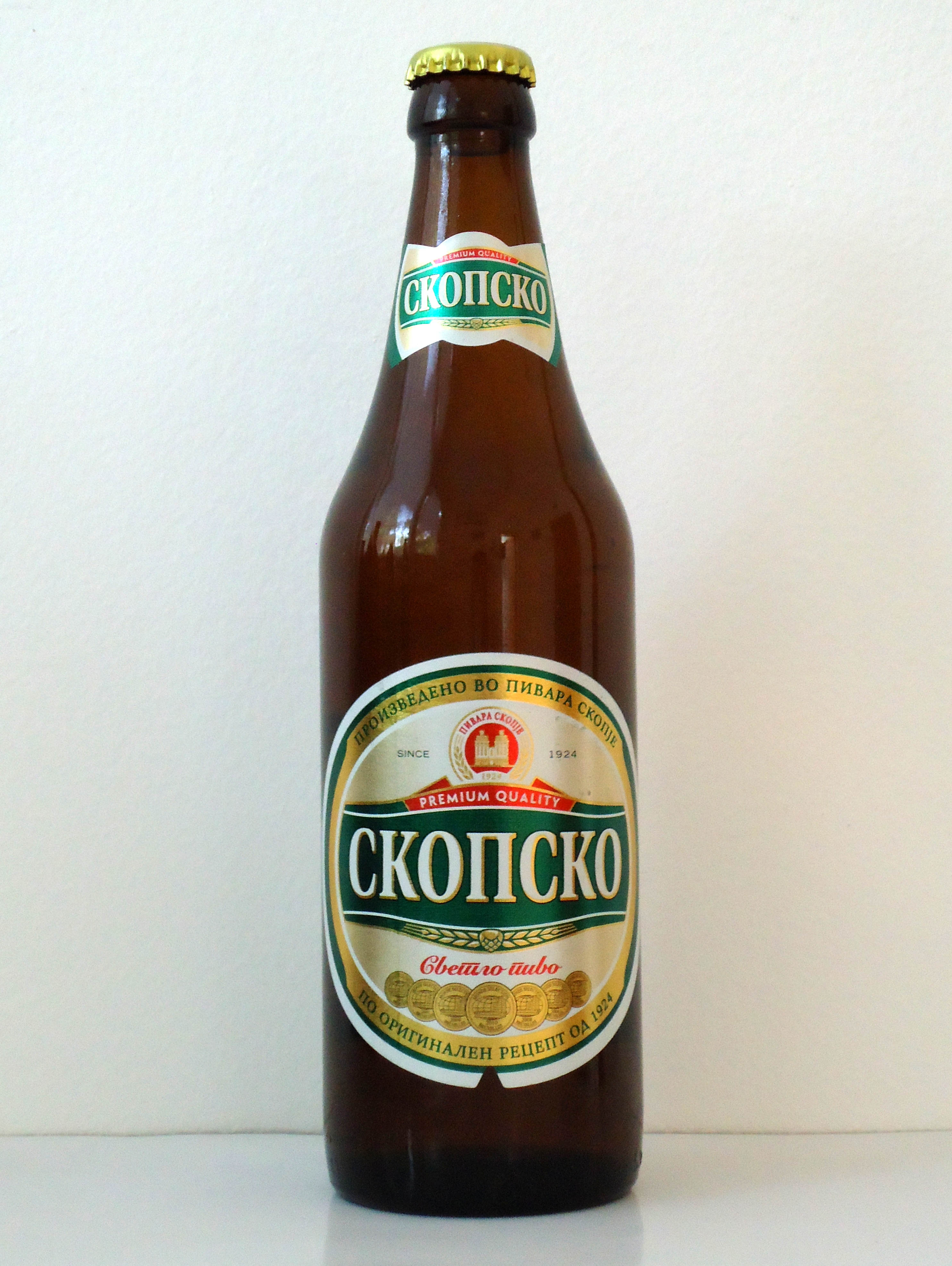 Skopsko beer